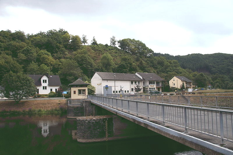 The village of Keppeshausen (Germany). View from Stolzembourg (Luxembourg) accross the Our.